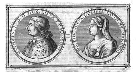 Matthias I of Lorraine and his wife Judith